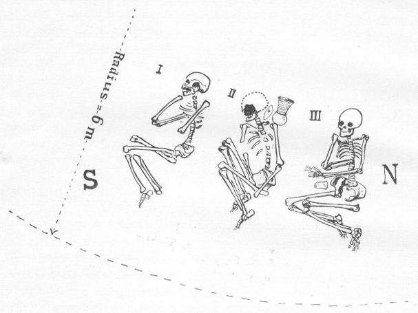 Corded ware burials